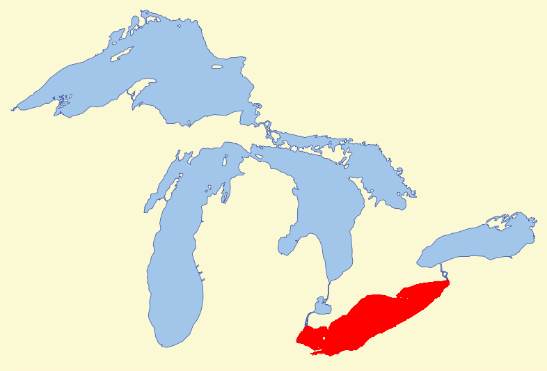 Map of Lake Erie